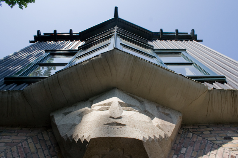 Dutch Architecture: School of Amsterdam 1920 Building Wageningen Architect: C.J.Blaauw